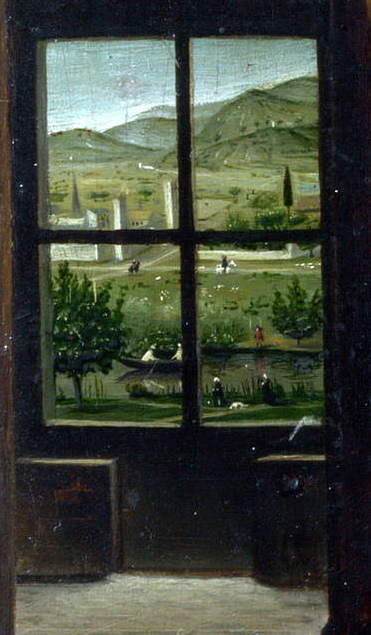 Antonello's Saint Jerome in his study detail